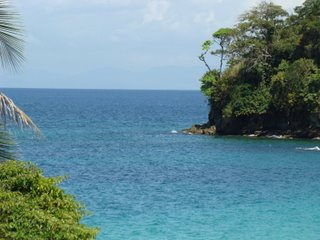 This is a shot from the Hotel Contadora in the Isla Contadora, Panama. The dark sections of the water are coral reef.